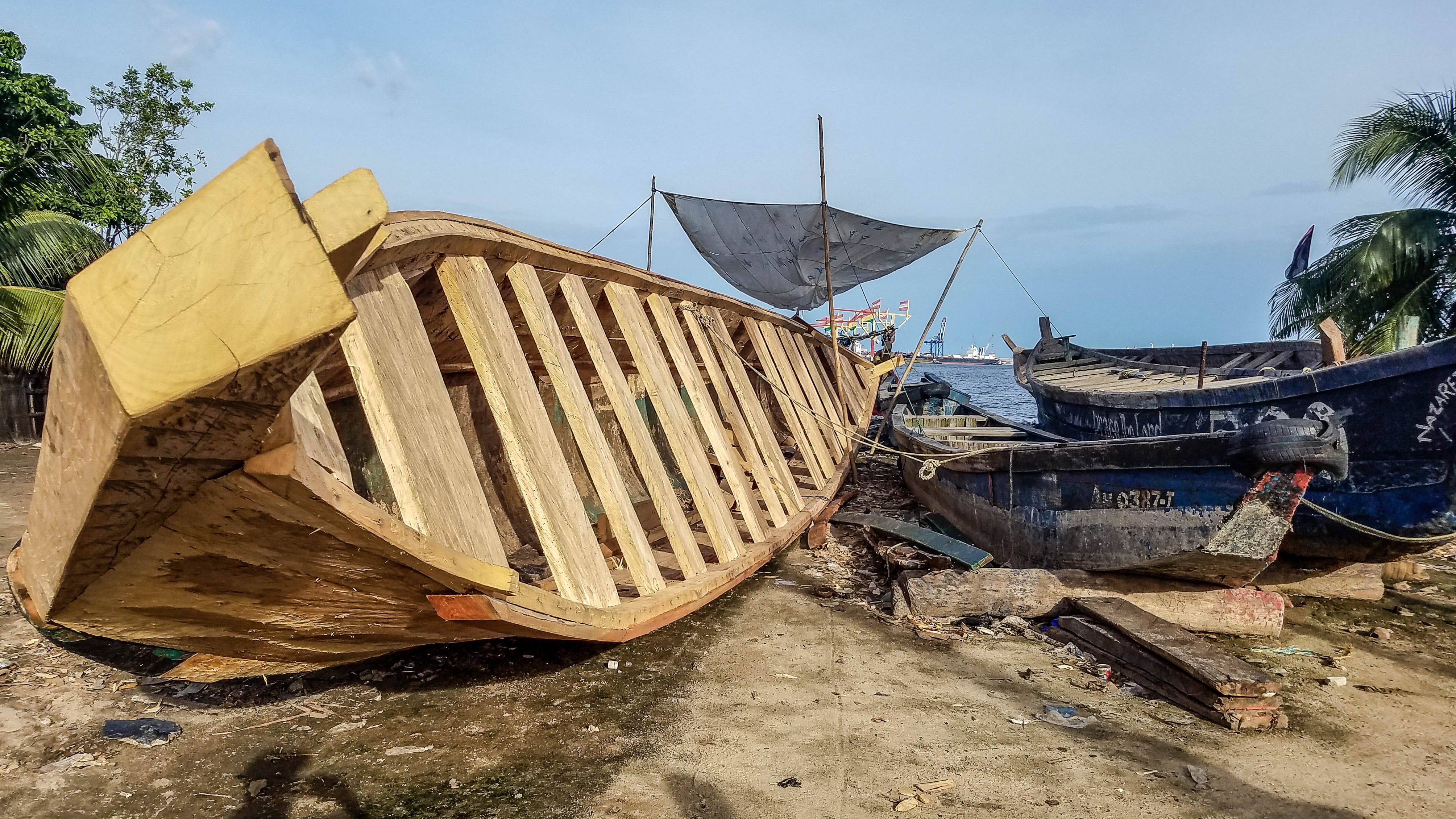 Fabrication de pirogue dans un village de pêcheur à l'île-bouley This is an image with the theme "Africa on the Move or Transport" from: Ivory Coast